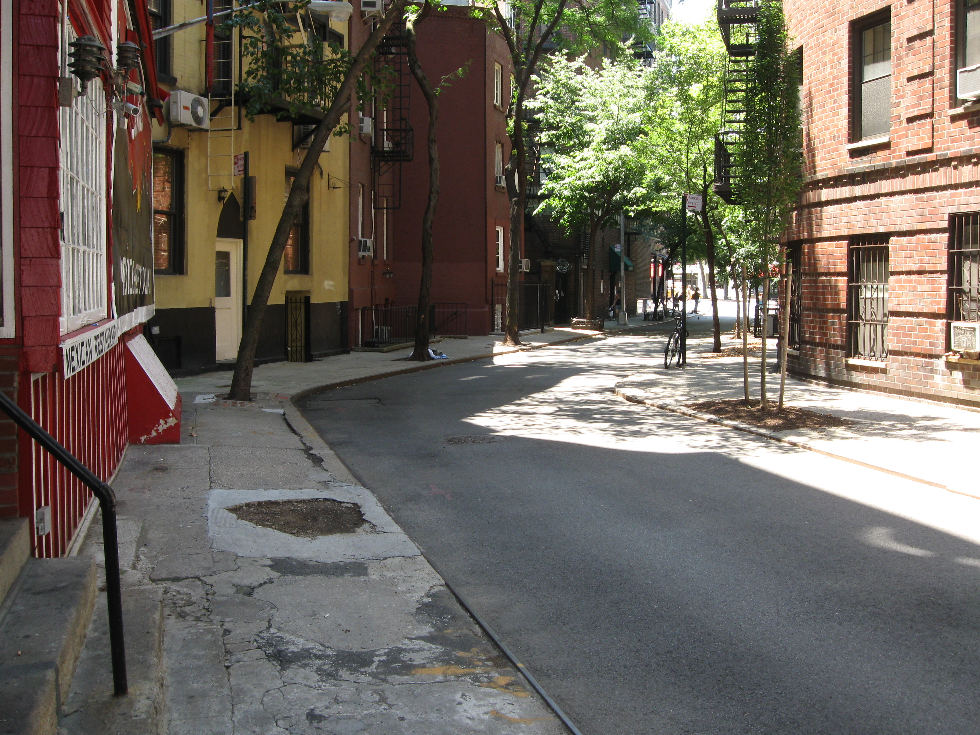 View of Minetta Street, showing the unusual curve originally caused by Minetta Creek